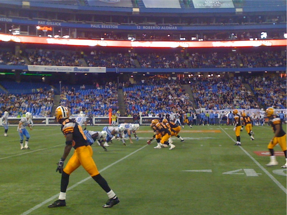 Hamilton Tiger-Cats (in black and gold) prepare to snap the ball on offence as the Toronto Argonauts (in white and blue) defend in a Canadian football game at the Rogers Centre, 11 September 2009. The teams wore uniforms of the style worn in the 1960s for the official 1960s "retro game".